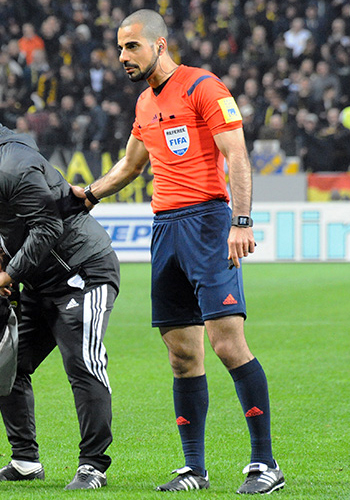 Referee Mohammed Al-Hakim during an Allsvenskan match in May 2015.